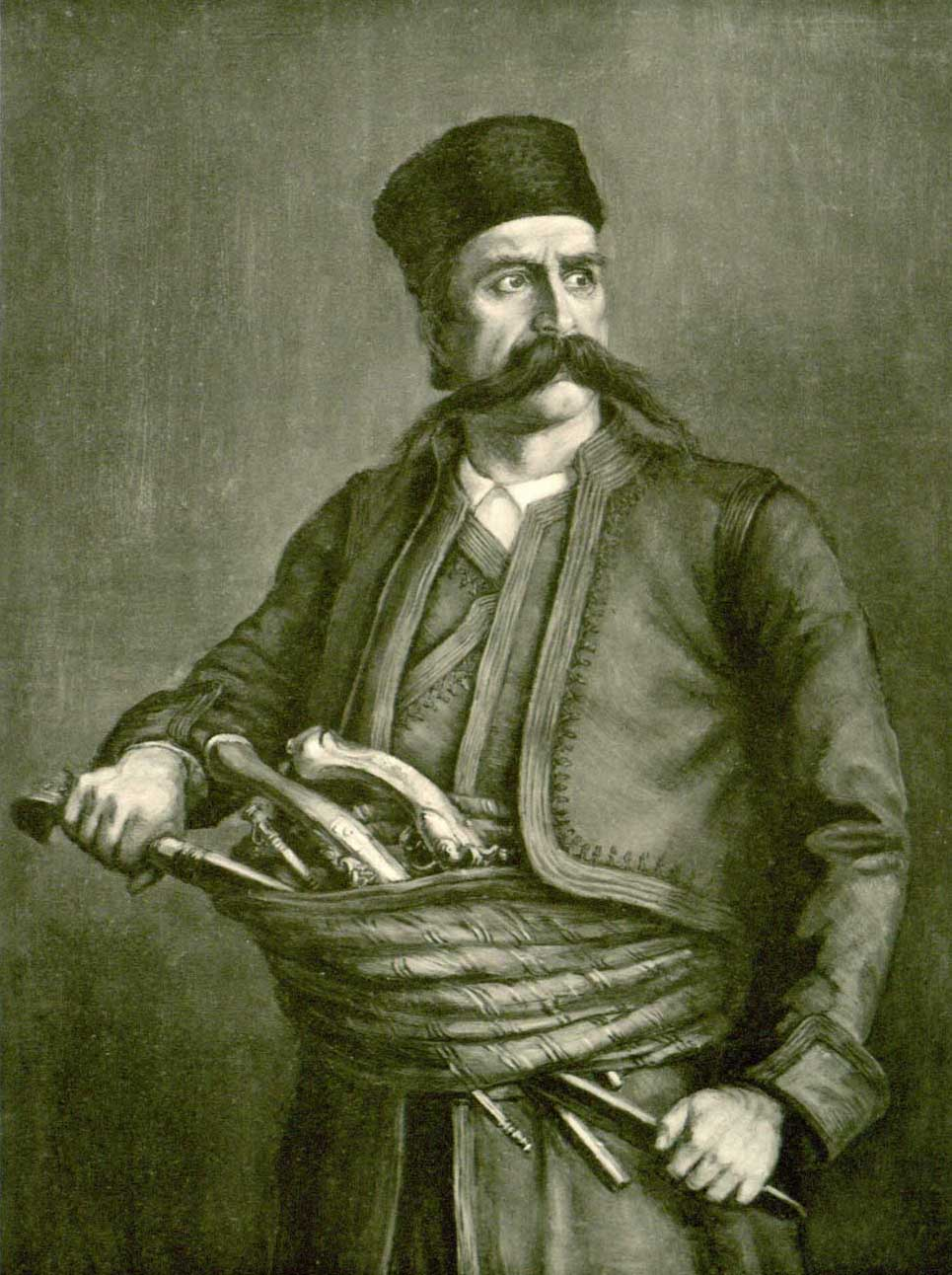 Illustration of Ilija Birčanin, published in Знаменити Срби 19. века (1901).